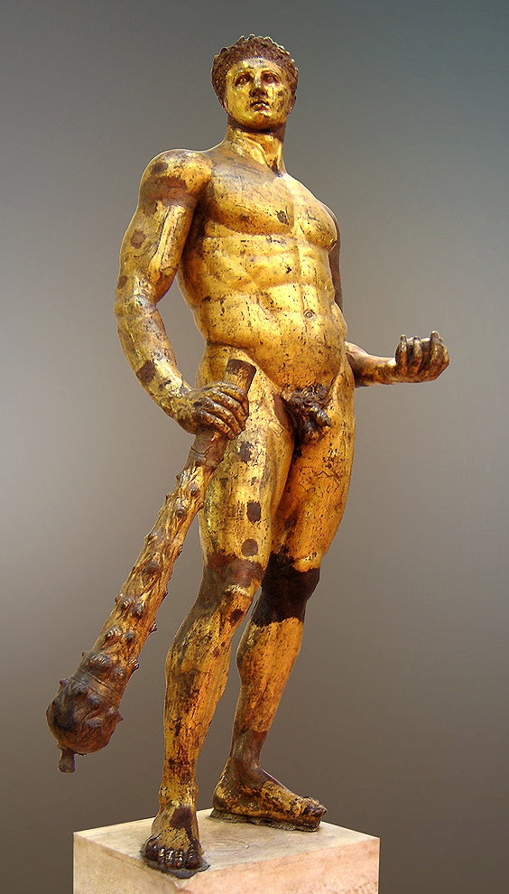 Hercules. Gilded bronze, Roman artwork, 2nd century BC.